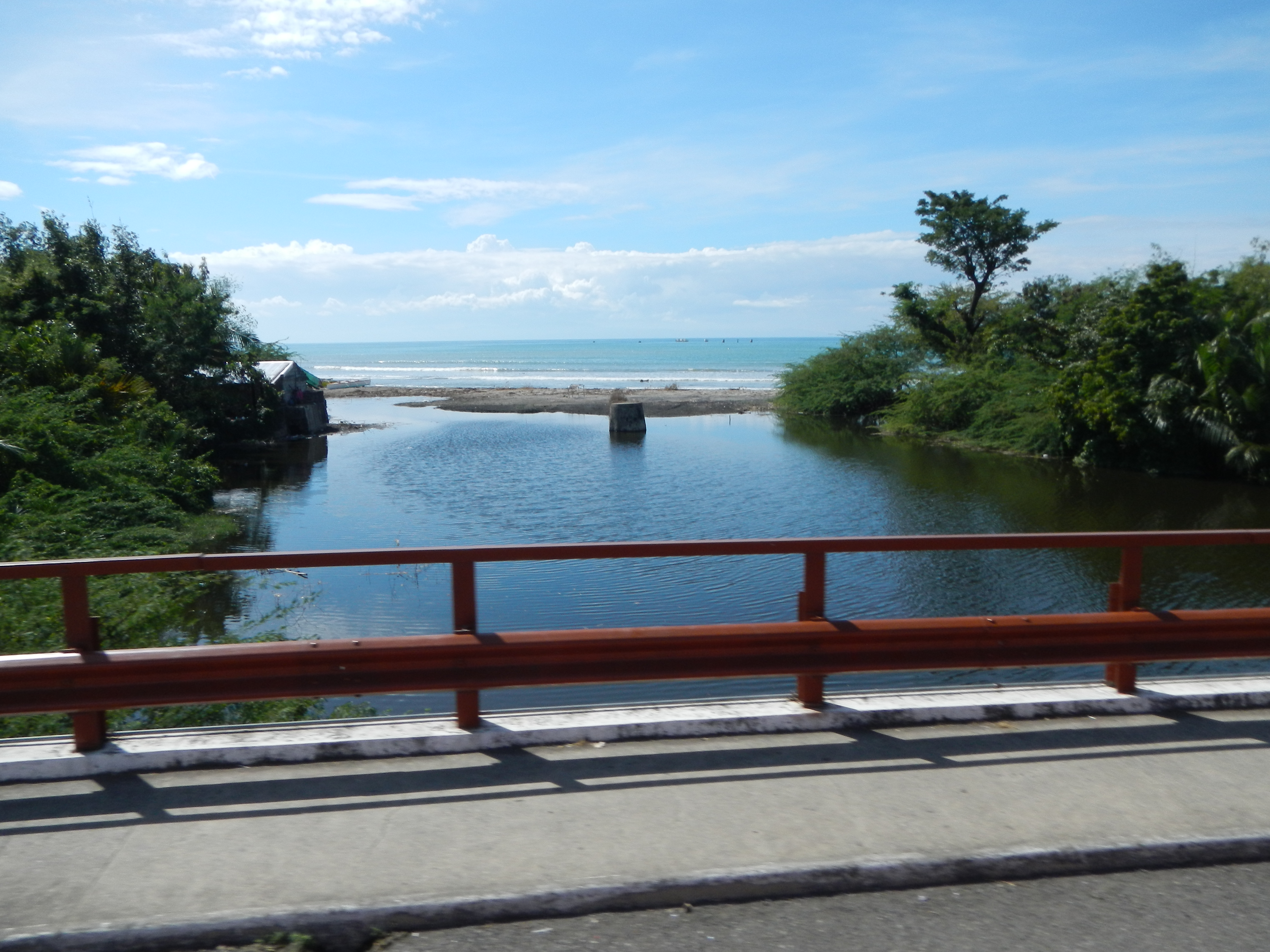 Upload Wizard photos of - the a) Church of Mangaldan, the Scenic route of the Pan-Philippine Highway along - b) the blue and green waters of the River and bridge of San Fabian, Pangasinan, its St. Blaise Christian School, Inc., Barangay Cayanga, Town Proper, Iglesia Ni Cristo, Barangay Tempra Cuilig, Welcome Arch of Pangasinan.